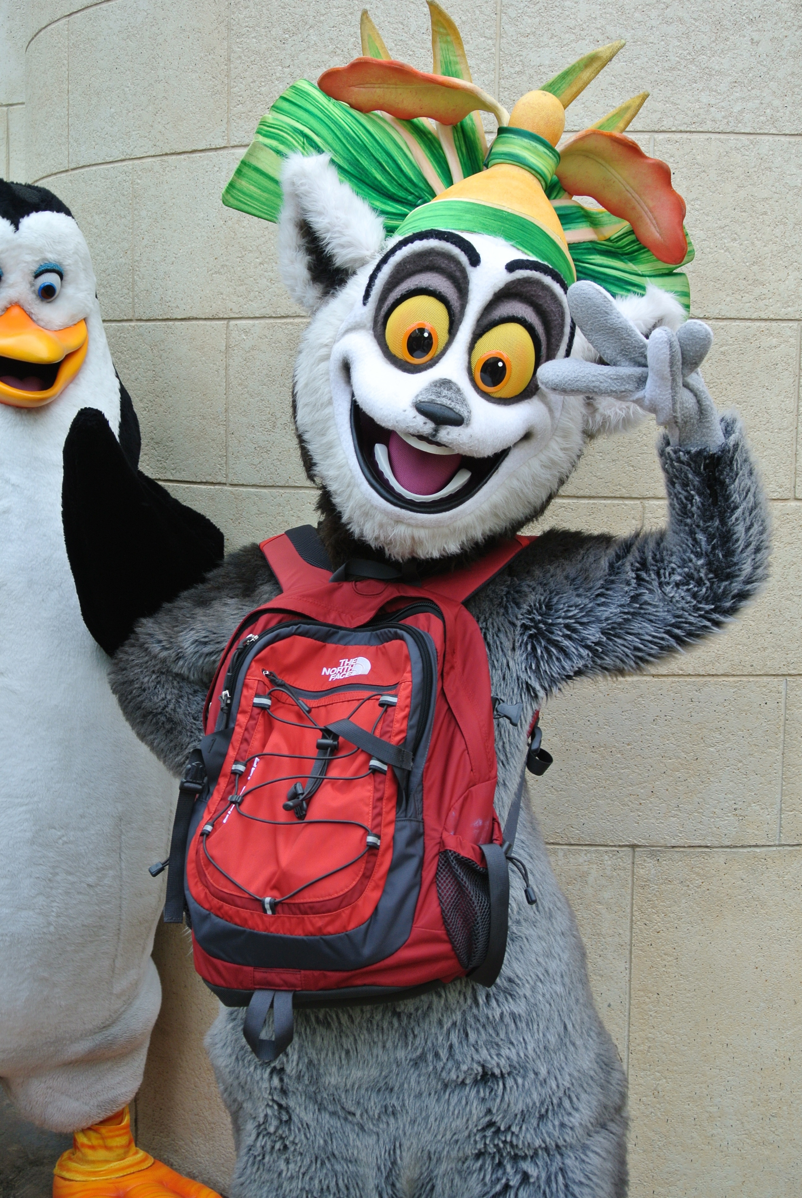 It stole my bag!